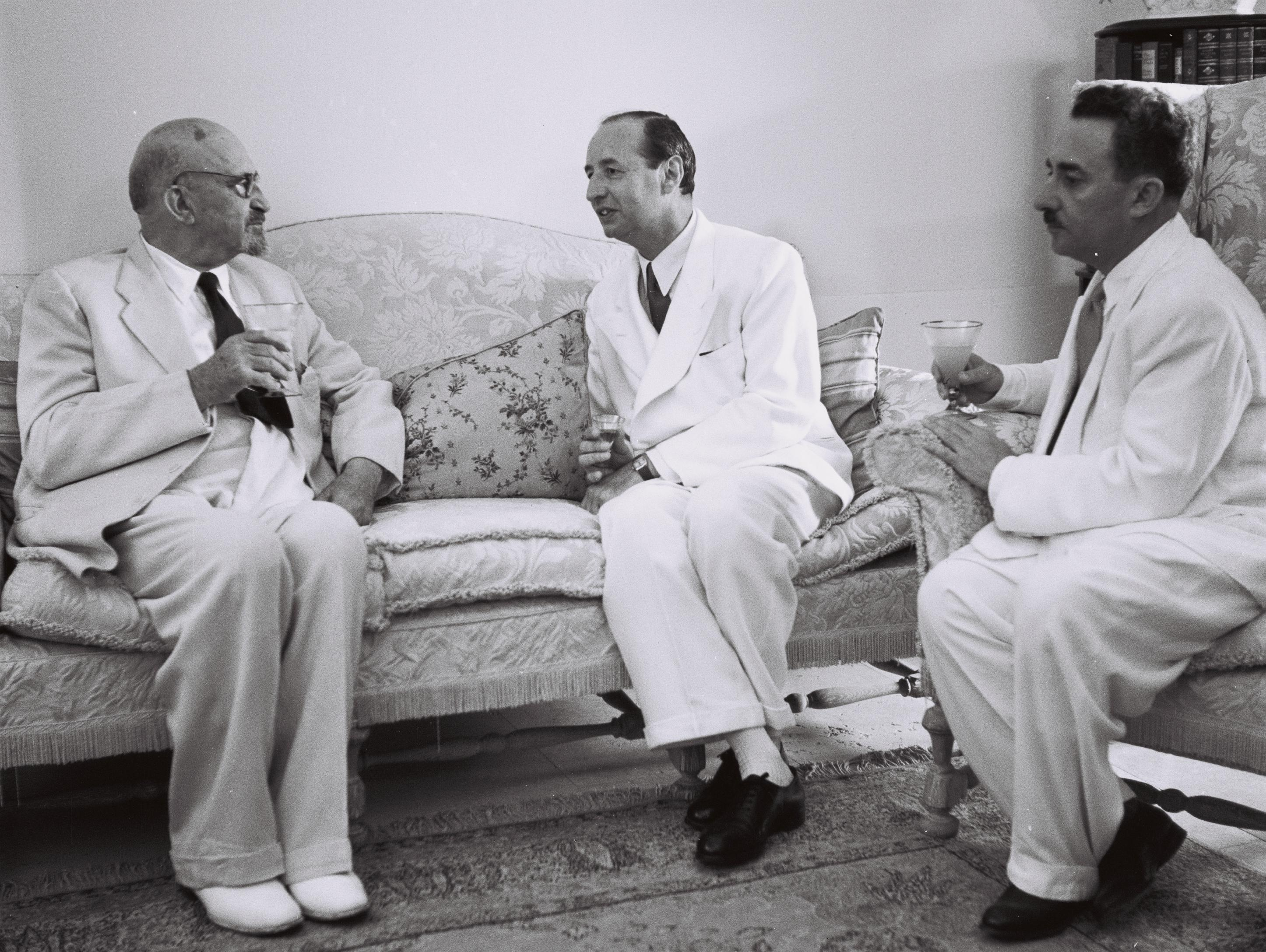 The first Turkish ambassador to Israel, Seyfullah Esin (C), with President Chaim Weizmann and Foreign Minister Moshe Sharett, after submitting his credentials in Rehovot.